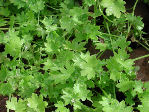 Bowlesia incana a spring annual found in the southern United States. This one at Phoenix, Arizona.